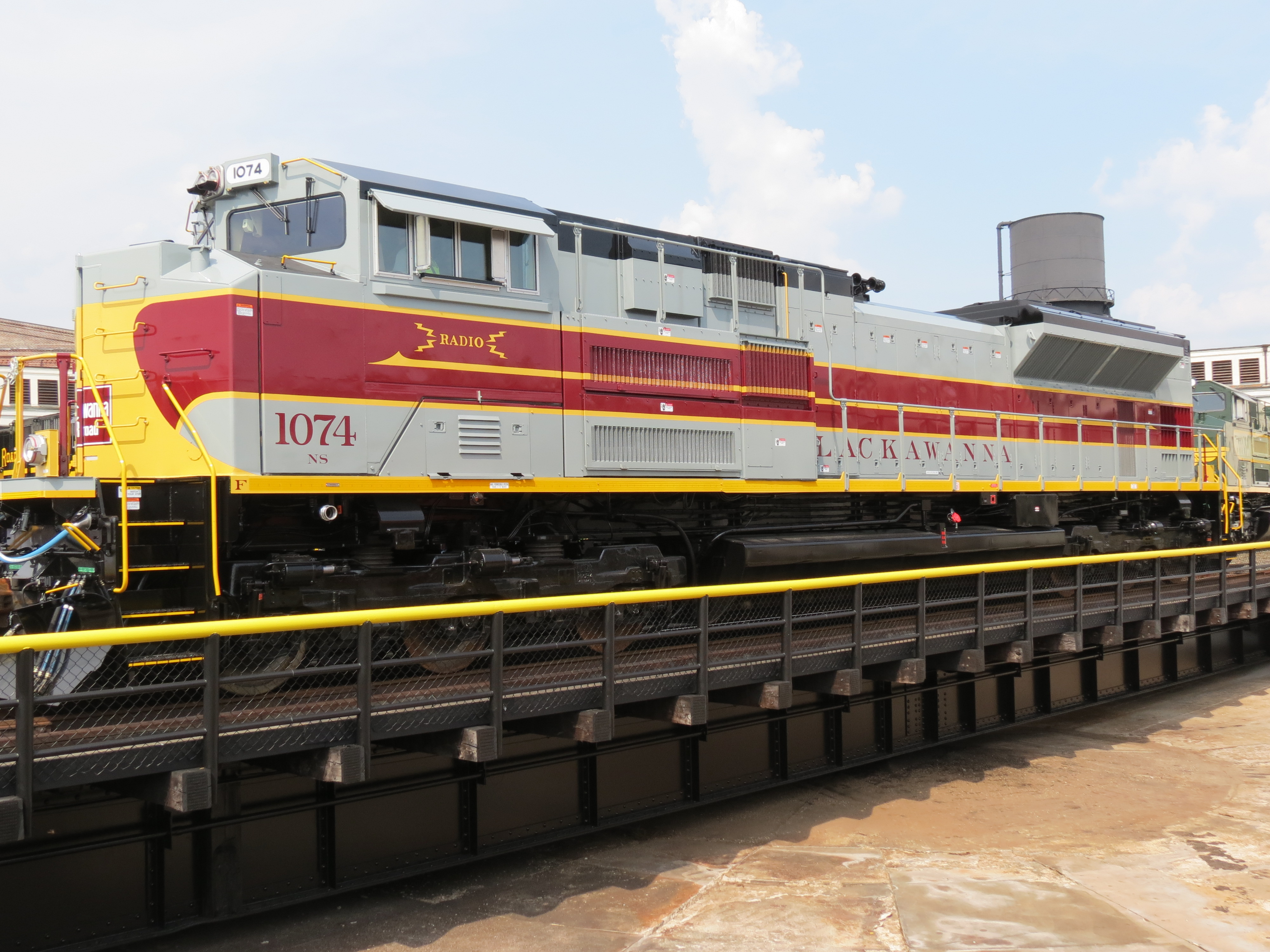 The Norforlk Southern Lackawanna painted Heritage unit at the Heritage Unit show in Spencer, NC in 2012